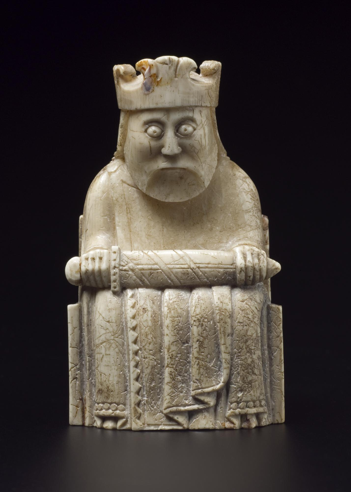 This file was uploaded as part of a partnership between Wikimedia UK and the National Museum of Scotland. This tag does not indicate the copyright status of the attached work. A normal copyright tag is still required. See Commons:Licensing. This work is free and may be used by anyone for any purpose. If you wish to use this content, you do not need to request permission as long as you follow any licensing requirements mentioned on this page.